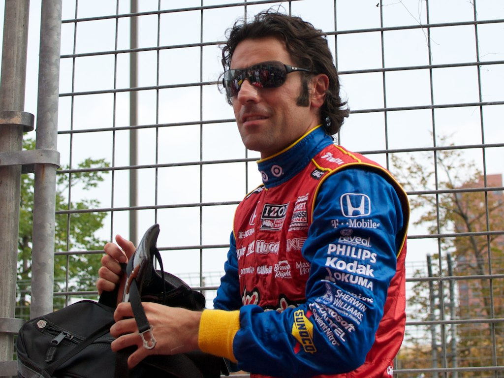 Dario Franchitti suiting up for the Baltimore Grand Prix, 2011.